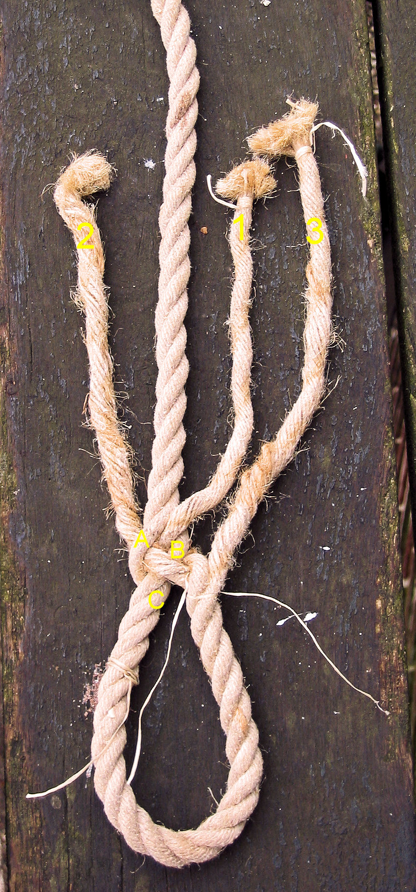 Eye splice second step